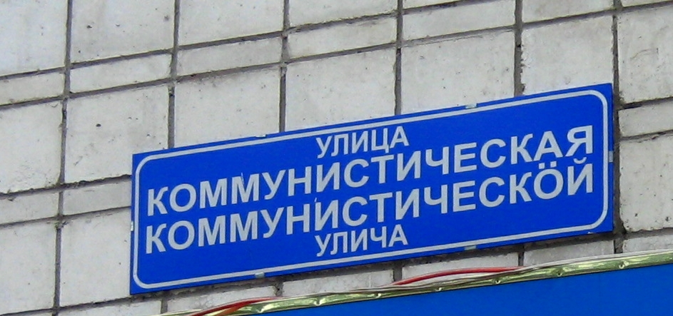 A sample of the Komi language words. Upper "Улица Коммунистическая" is in Russian, lower "Коммунистическöй улича" is in Komi. Both mean "Communist street". This picture was taken in Syktyvkar, the capital of Komi Republic